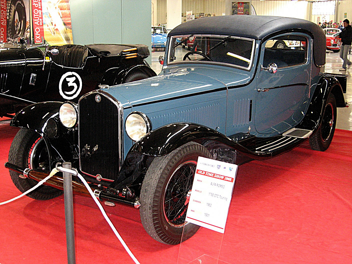 Subject:Alfa Romeo 1750 GTC Touring Author:Luc106 Date:March 15th, 2007 Event:Old Timer Show 2008 Place/Country: Forlì, Italy I release all rights in the public domain.